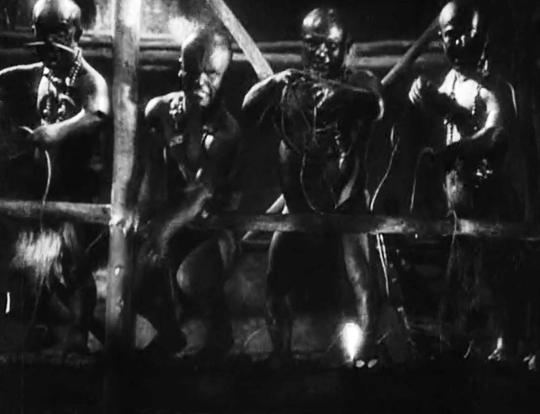 Low resolution screenshot from the public domain trailer for the film Tarzan the Ape Man (1932) with Johnny Weissmuller as Tarzan. The tribe of African pygmies (made up entirely of males) portrayed in the film was actually a cast of several white little people wearing blackface. Here they are lowering ropes to capture the expedition.